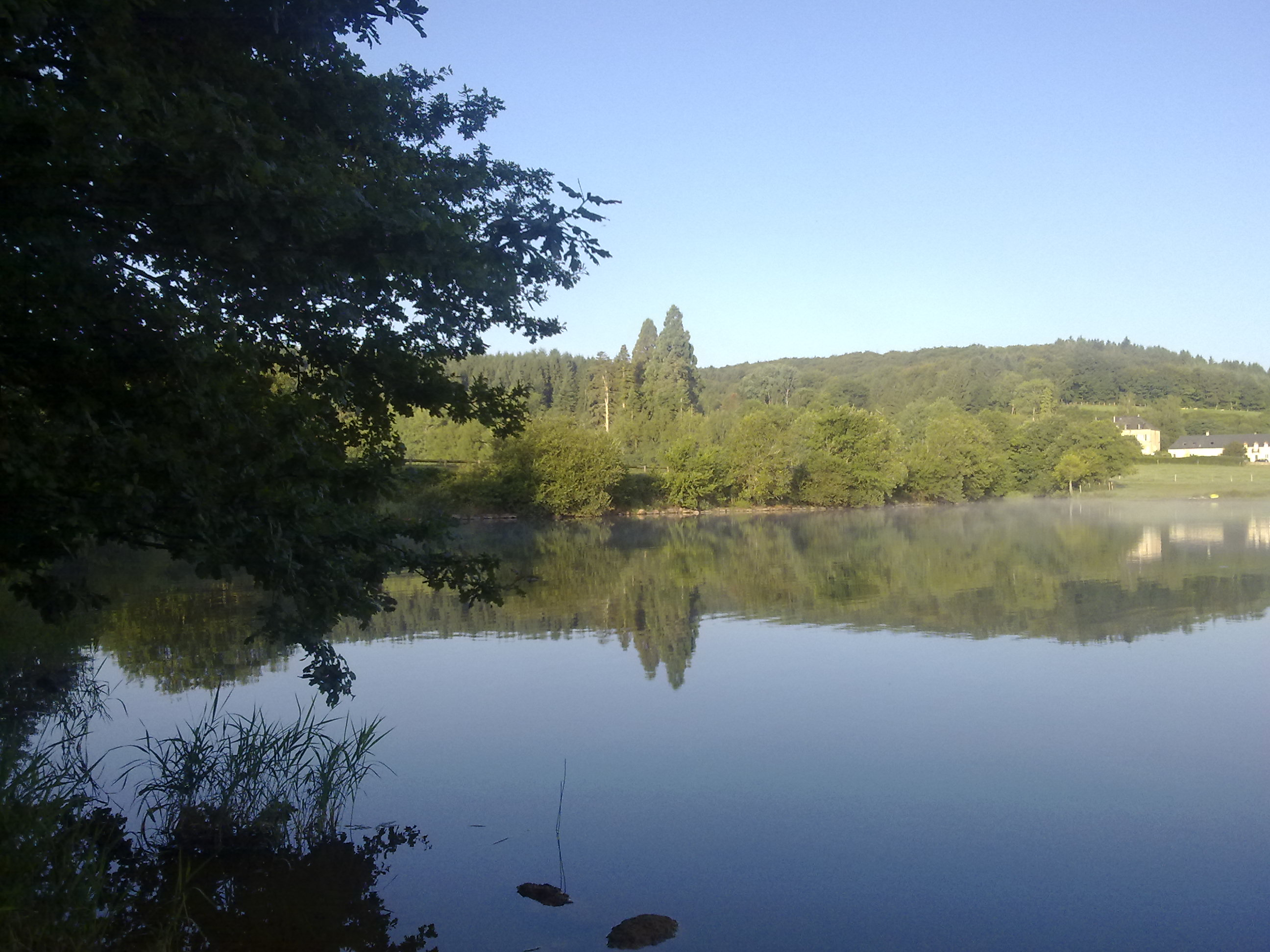 taken 12 Aug., 7.56 am. Looking S-W at the camping site, from the small beach near the D226 rd.